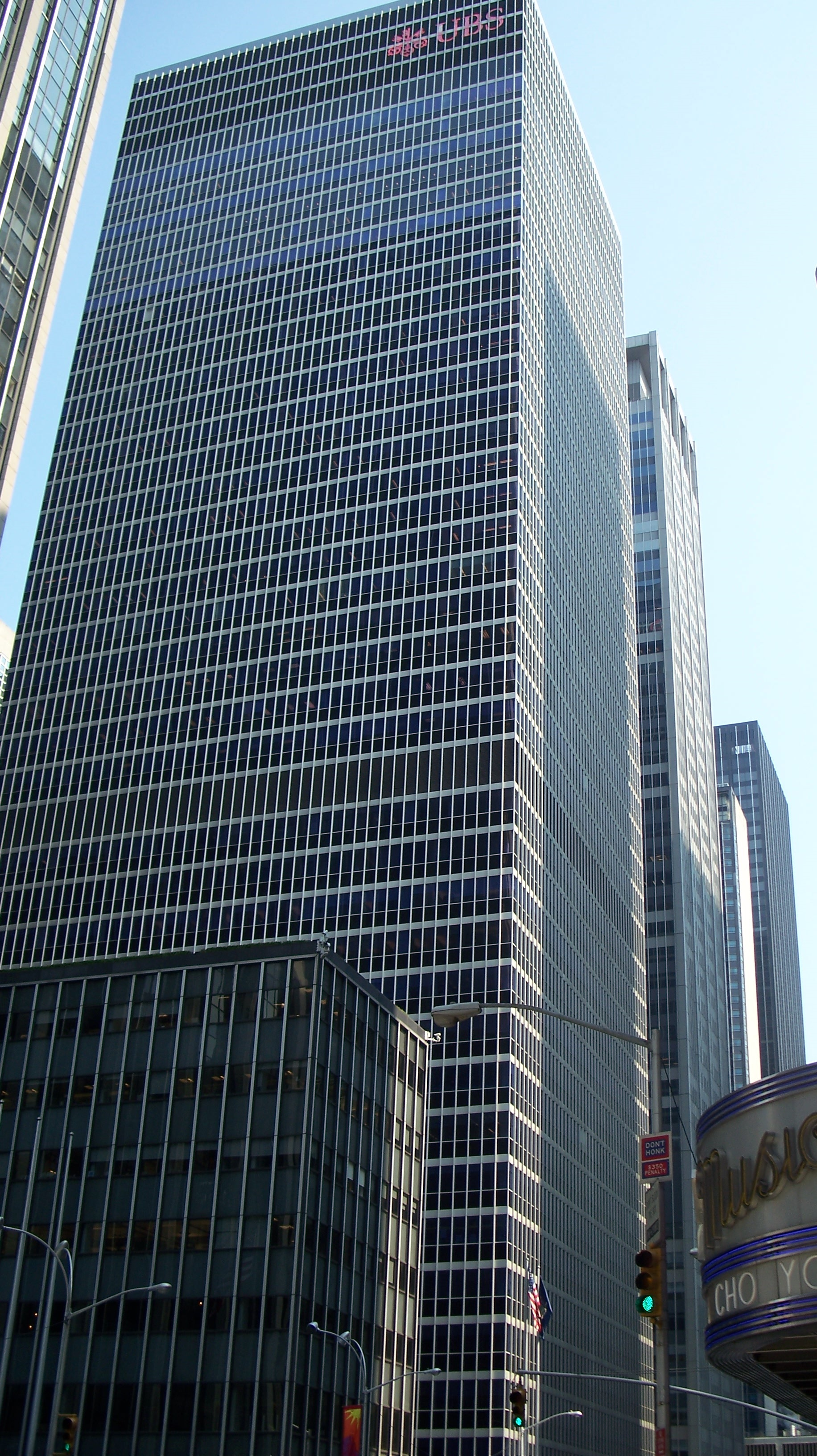 UBS headquarters in New York, 1285 Avenue of the Americas building